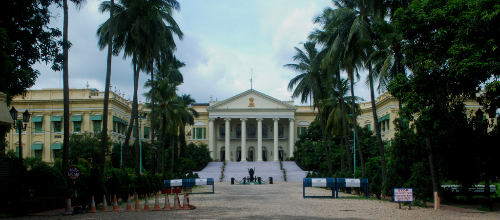 Raj Bhavan, from North Gate